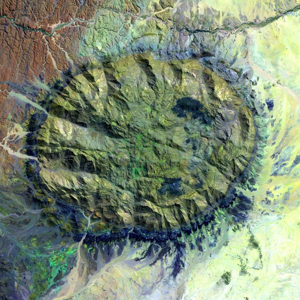 Satellite image of the Brandberg Massif, Namibia. Original figure caption: “Brandberg Massif is a dome-shaped granite intrusion that covers 250 square miles (650 square kilometers) and rises 1.6 miles (2,573 meters) above its surroundings in the central Namib Desert. Brandberg Massif is an important habitat for high-altitude savannah species and is of great archaeological interest due to the many prehistoric cave paintings found among its granite cliffs.”